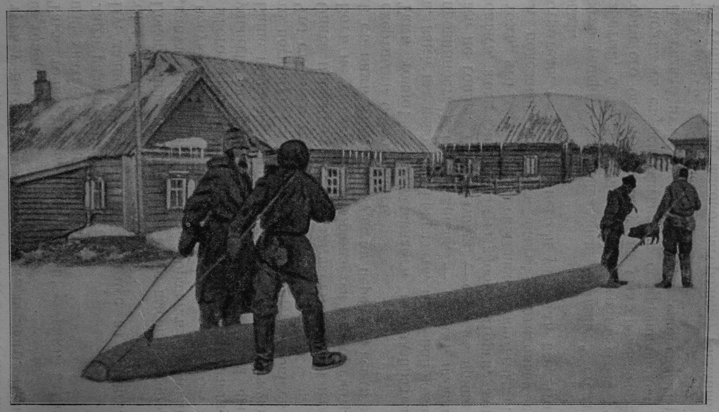 Log draggers